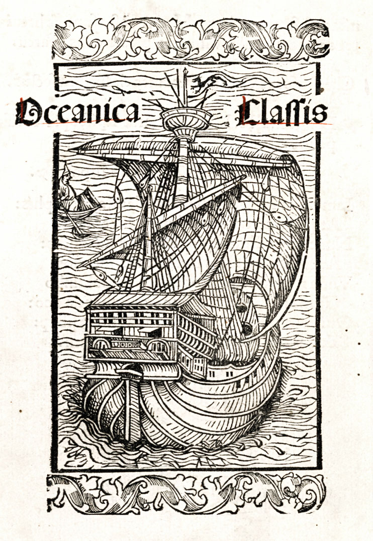 Woodcut from the Basel edition of Columbus' letter.